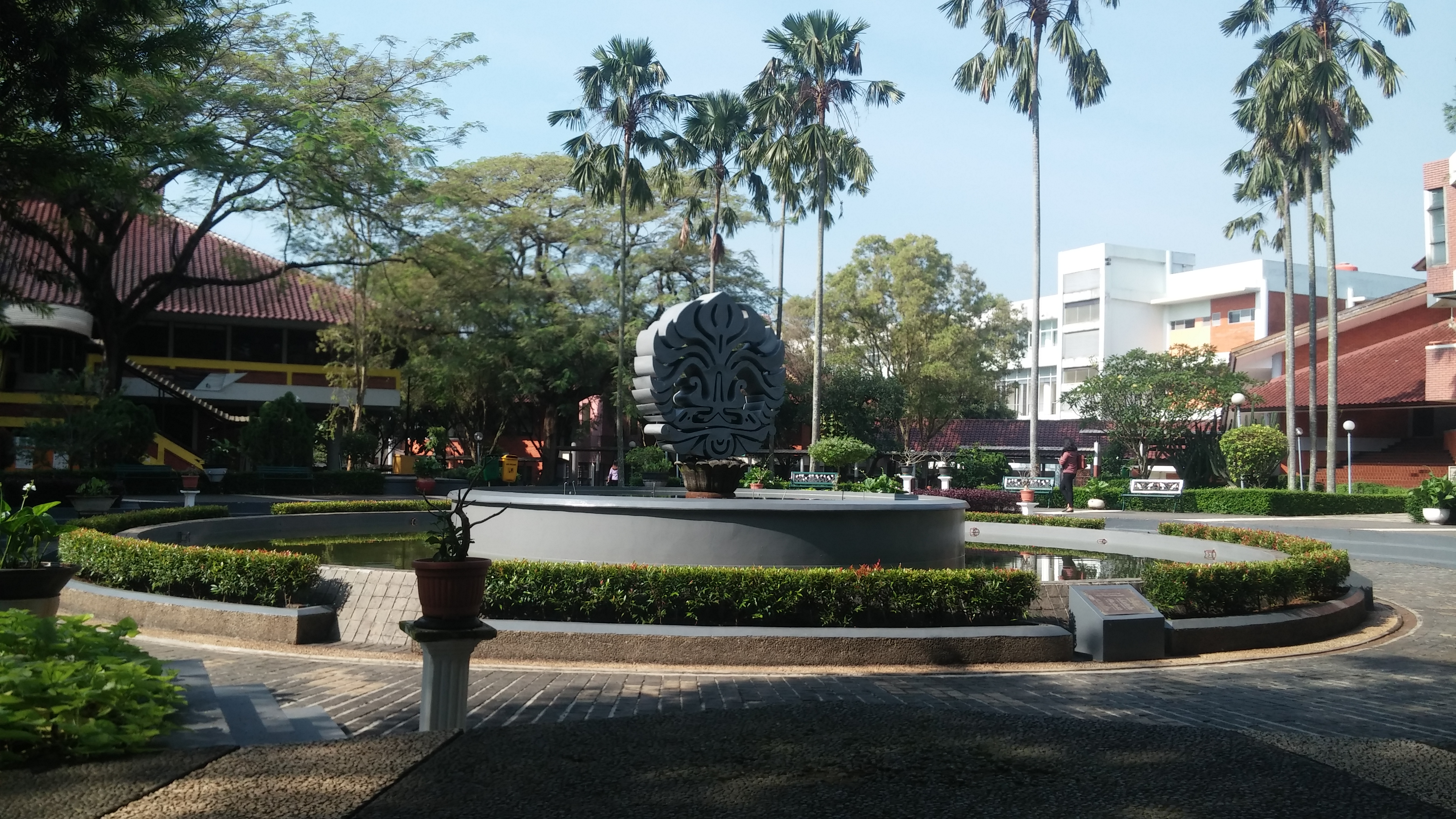 Faculty of Economics and Business - University of Indonesia